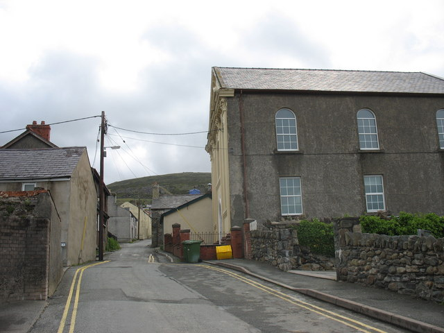 The High Street, Rachub The chapel on the right is Carmel (Anibynwyr/Congregational).